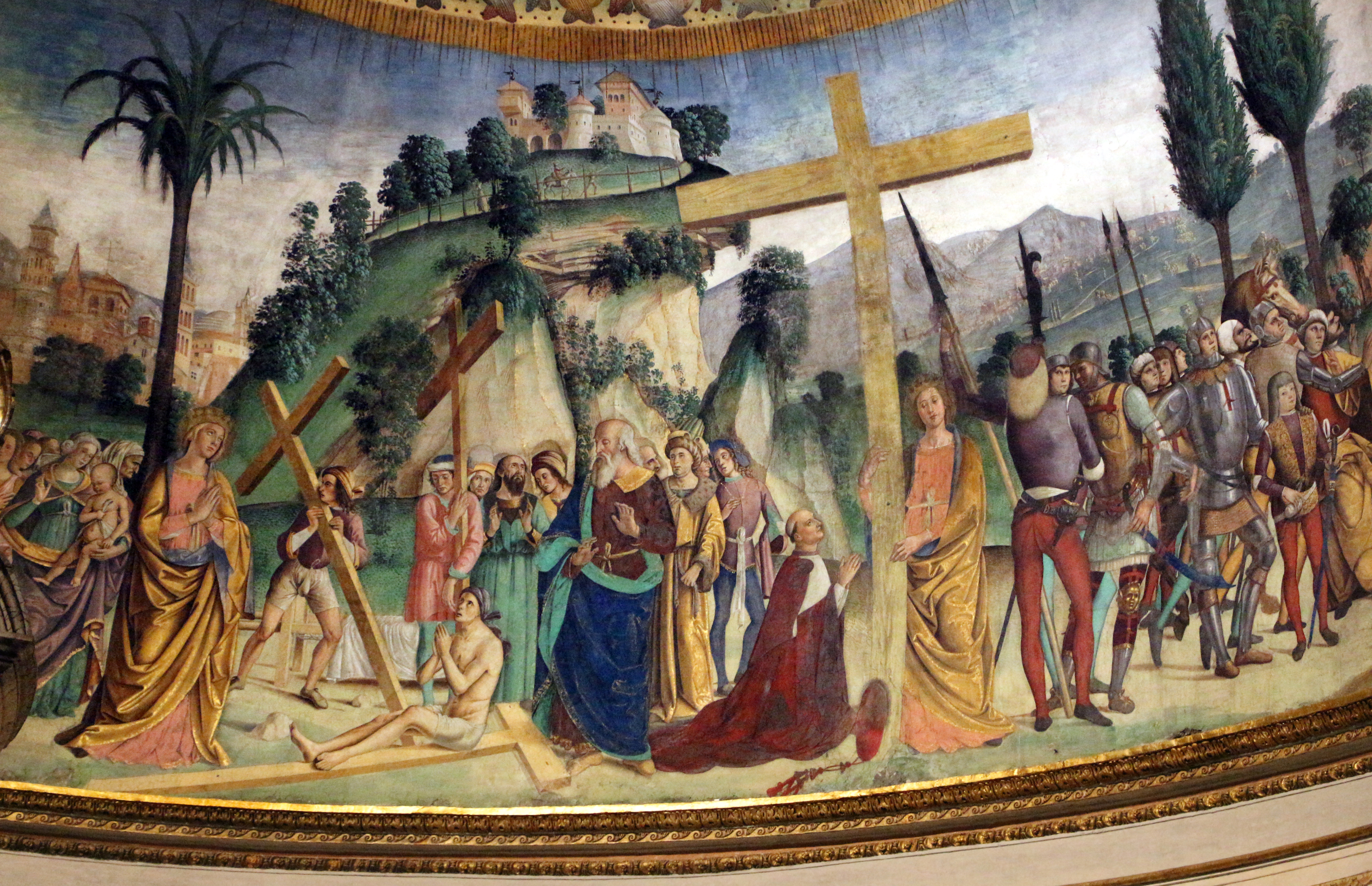 Stories of the Holy Cross by Antoniazzo Romano